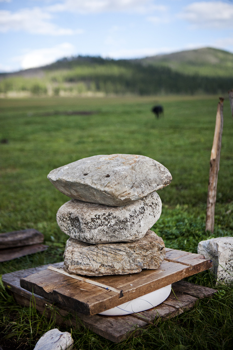 Large stones are used to press excess liquid out of curd. Khovsgol Province, Mongolia.